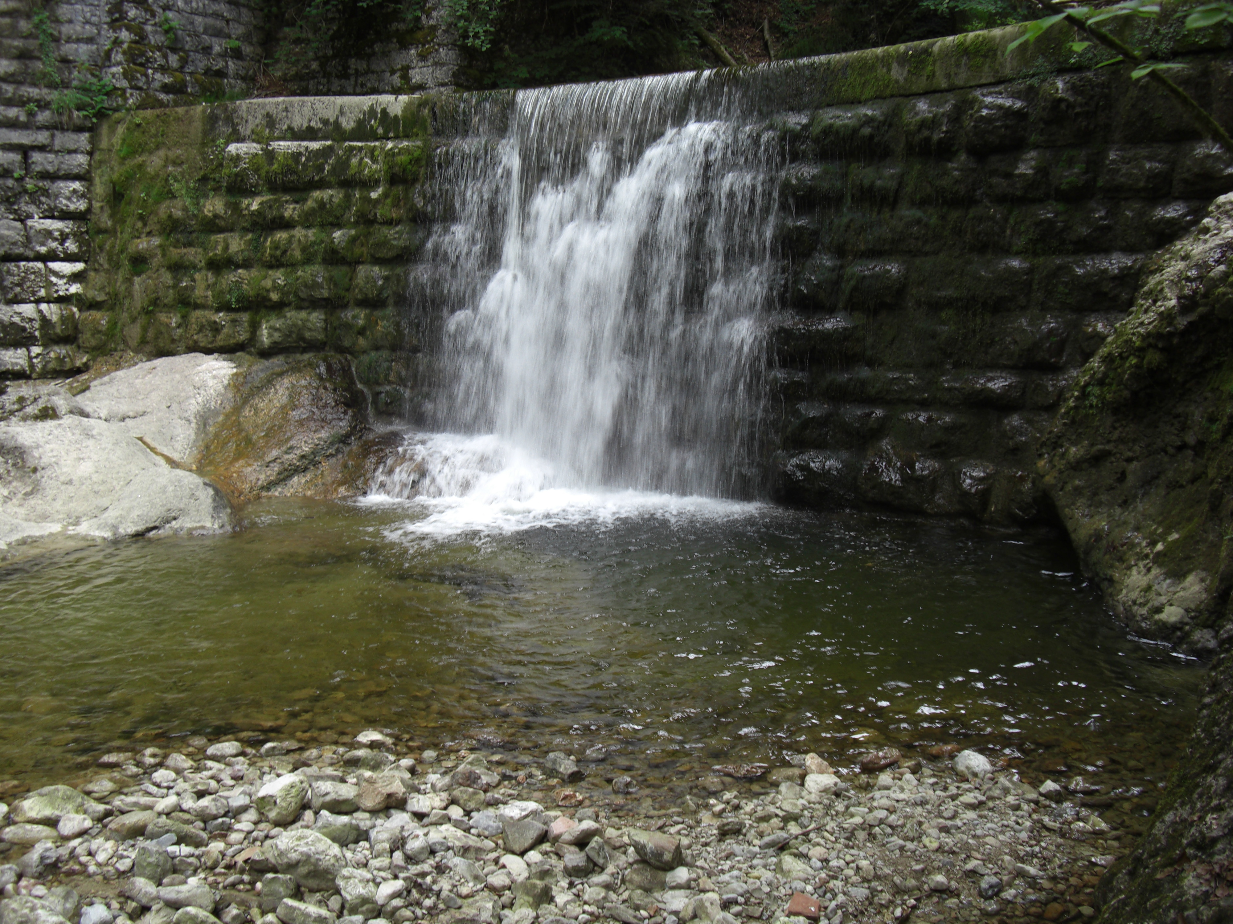 Waterfall in the Glasenbachklamm (Elsbethen, Austria).